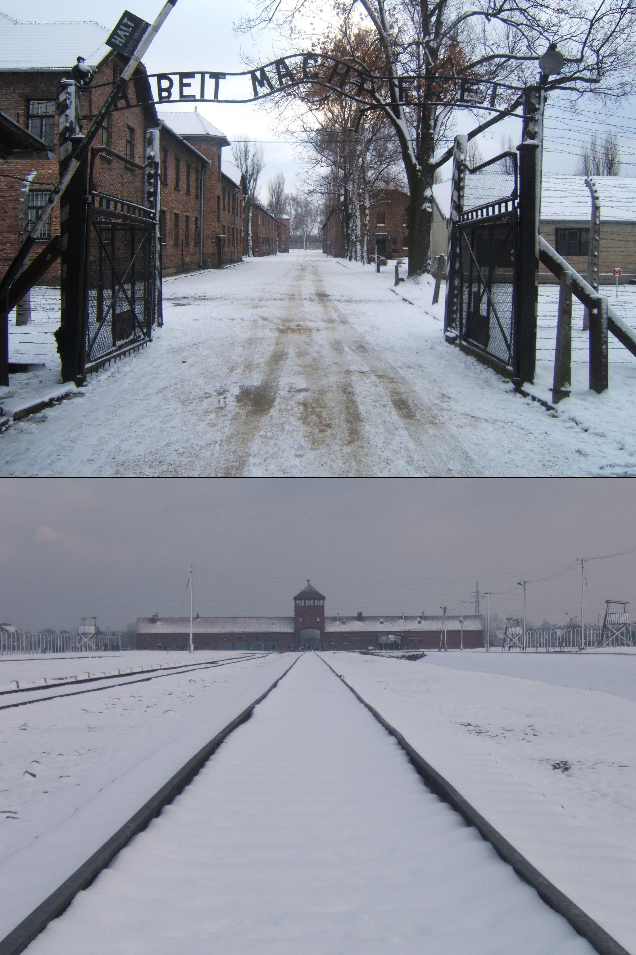 Entrances to Auschwitz and Birkenau with snow